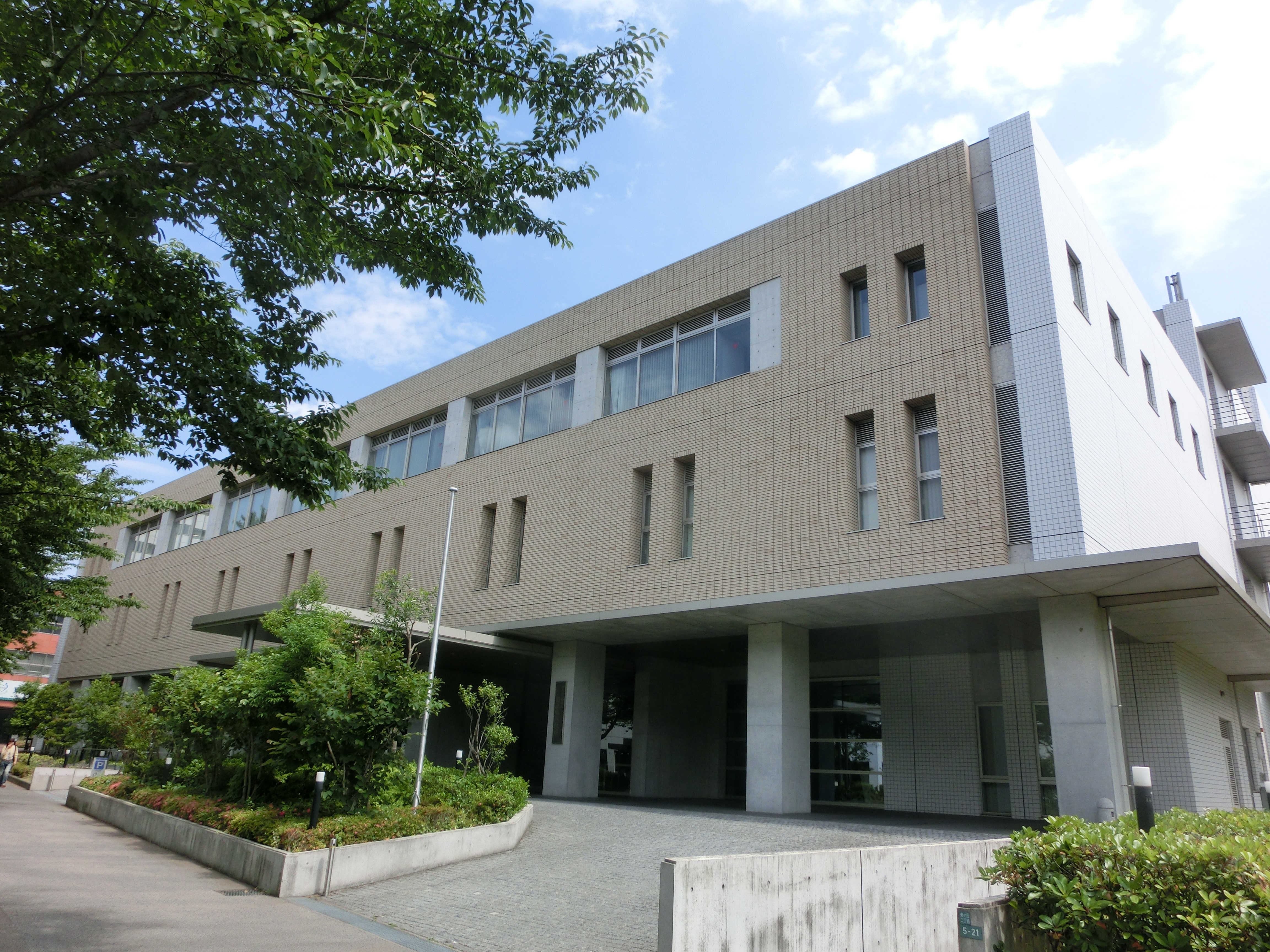 National Hospital Organization